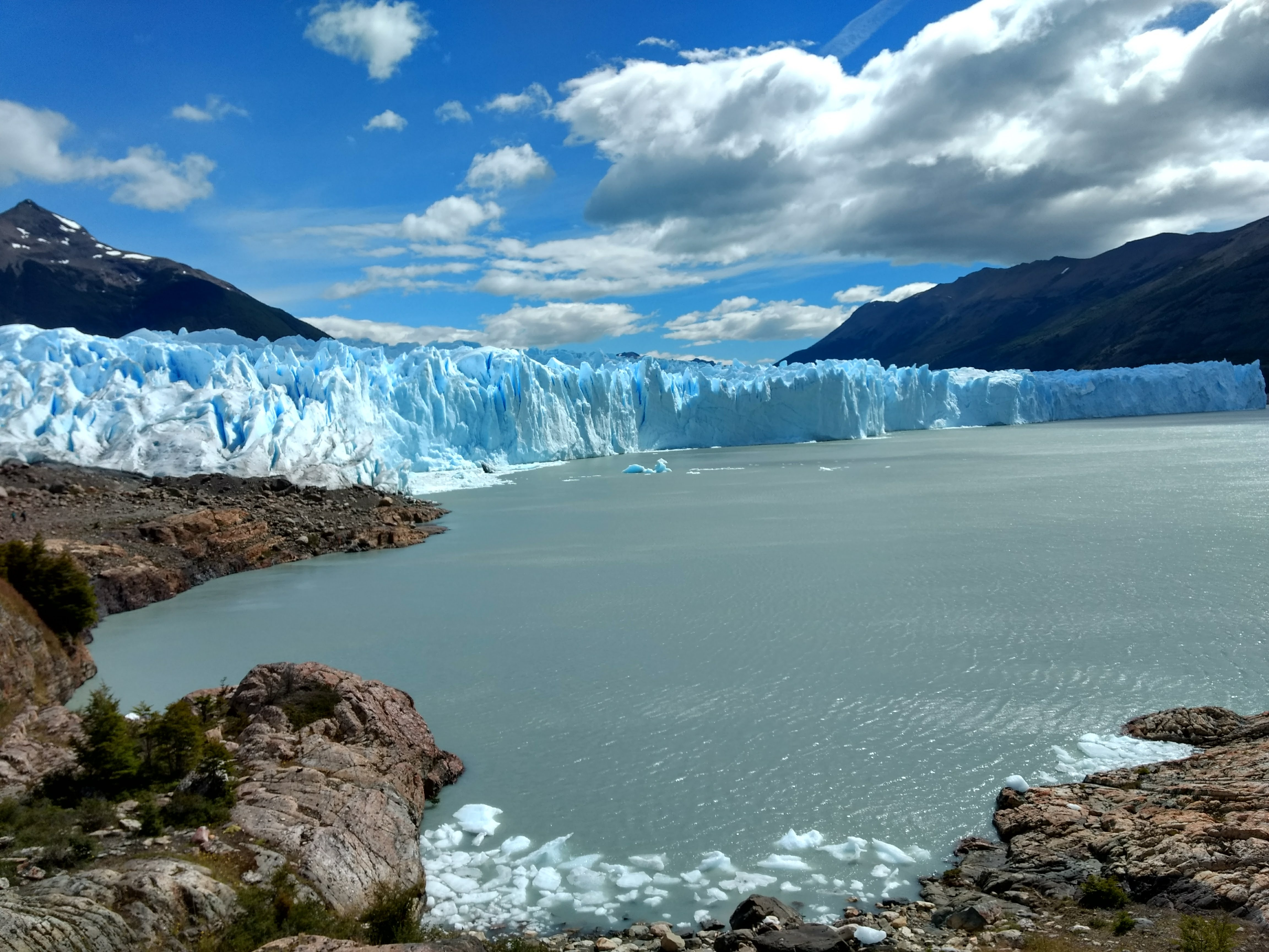 Perito Moreno Glacier, Los Glaciares National Park, Argentina